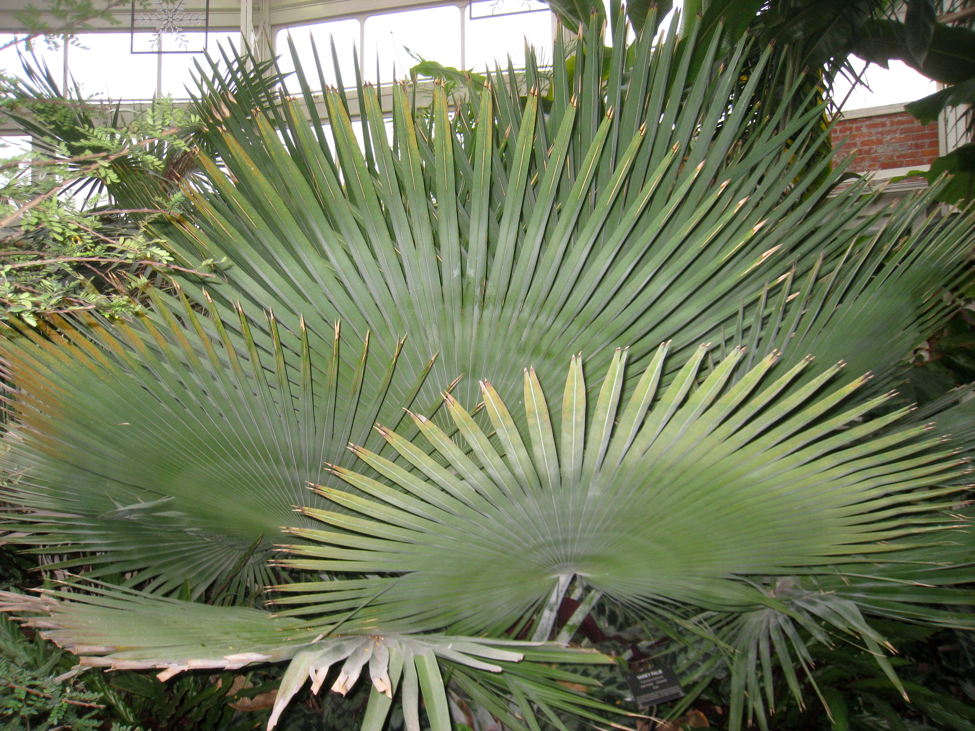 Copernicia baileyana specimen in the Buffalo and Erie Country Botanical Gardens, Buffalo, New York, USA.